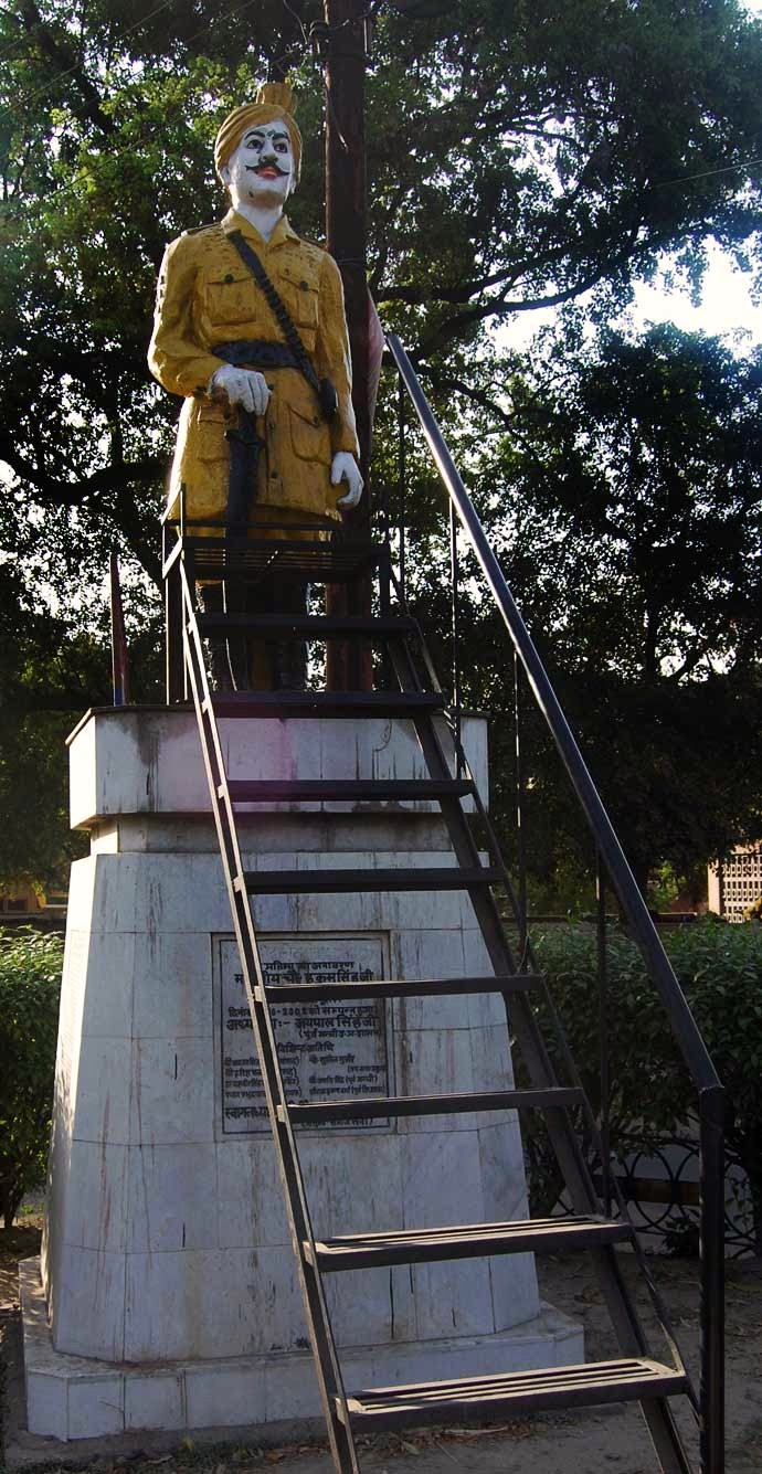 Statue of freedom fighter Kotwal Dhan Singh Gurjar in Commisionarie Chowk Meerut.